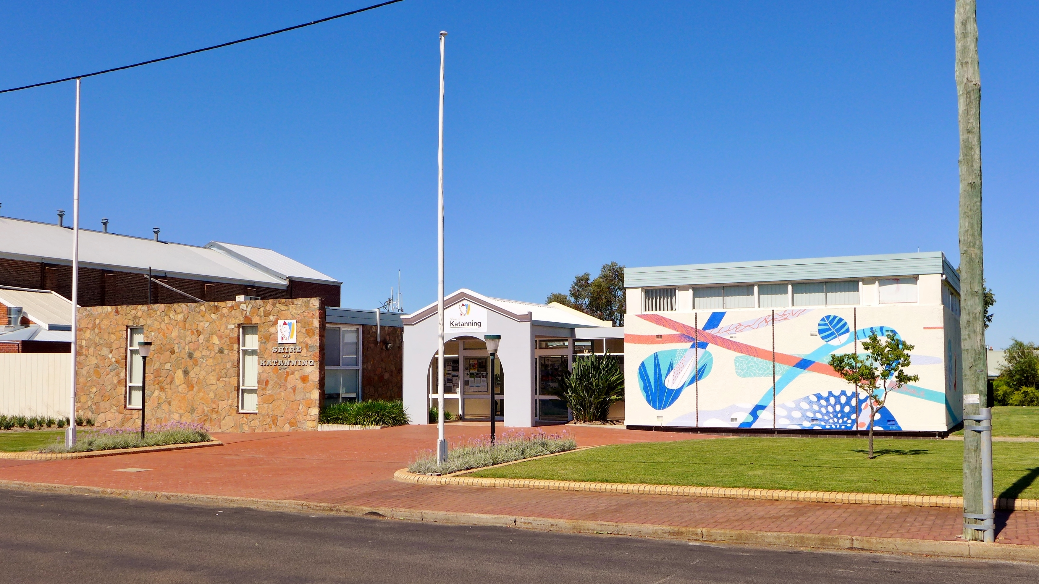 View of the shire offices in Katanning, Western Australia